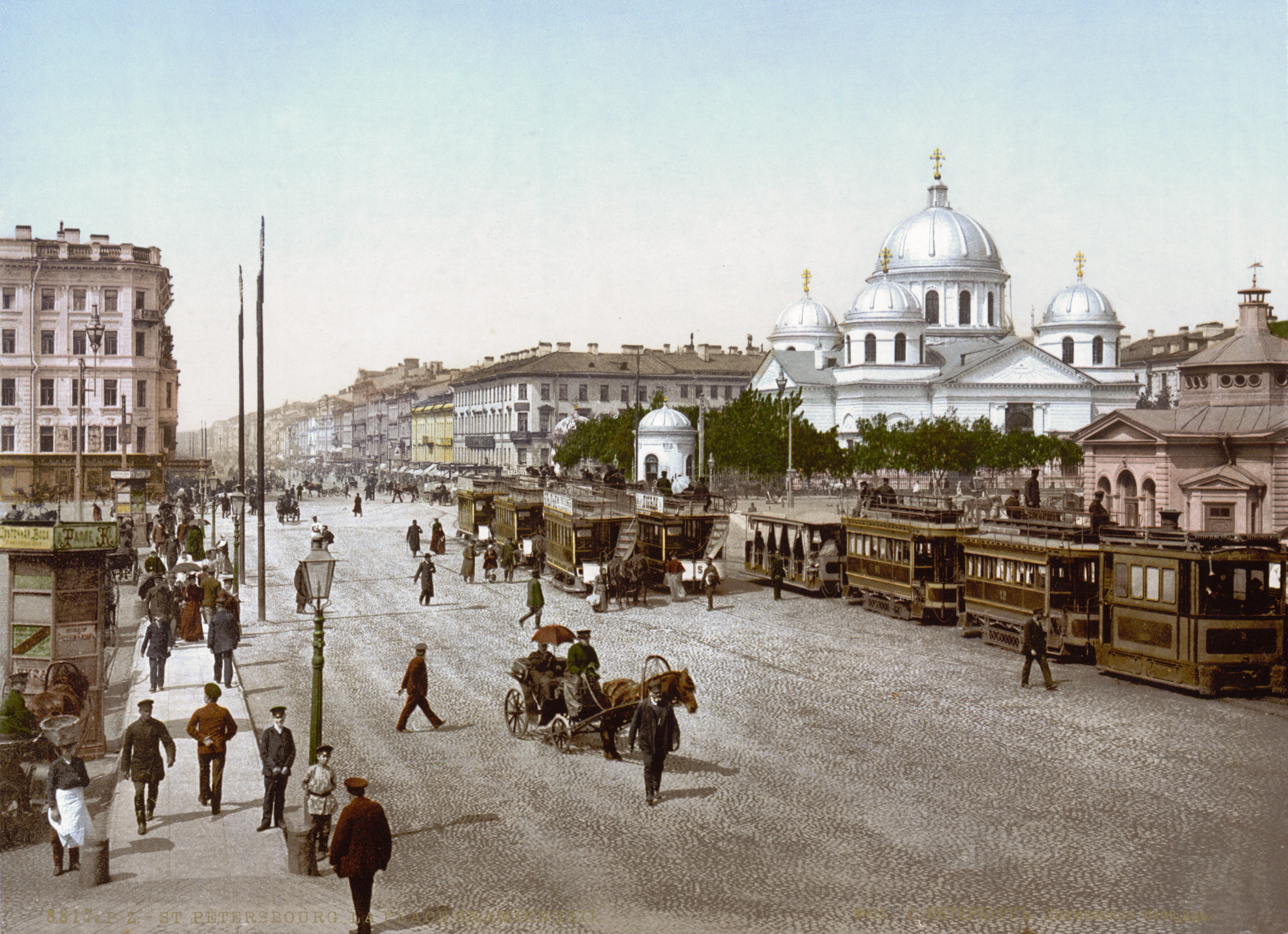 The view on Znamenskya church on Nevsky Prospekt in St Petersburg (Russia). 19th-century photochrome print (1896). Print no. "8817"